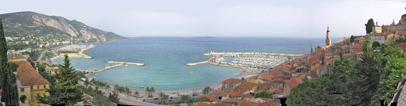 Panoramics of Menton, Alpes-Maritimes, France.